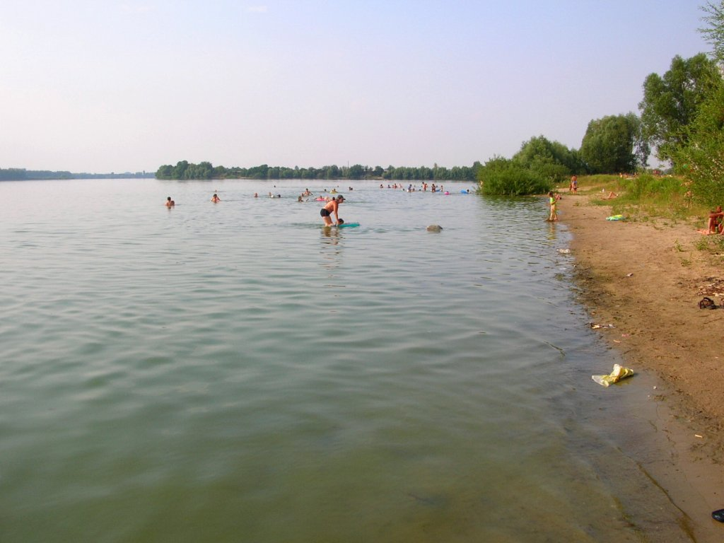 Pakoskie Lake